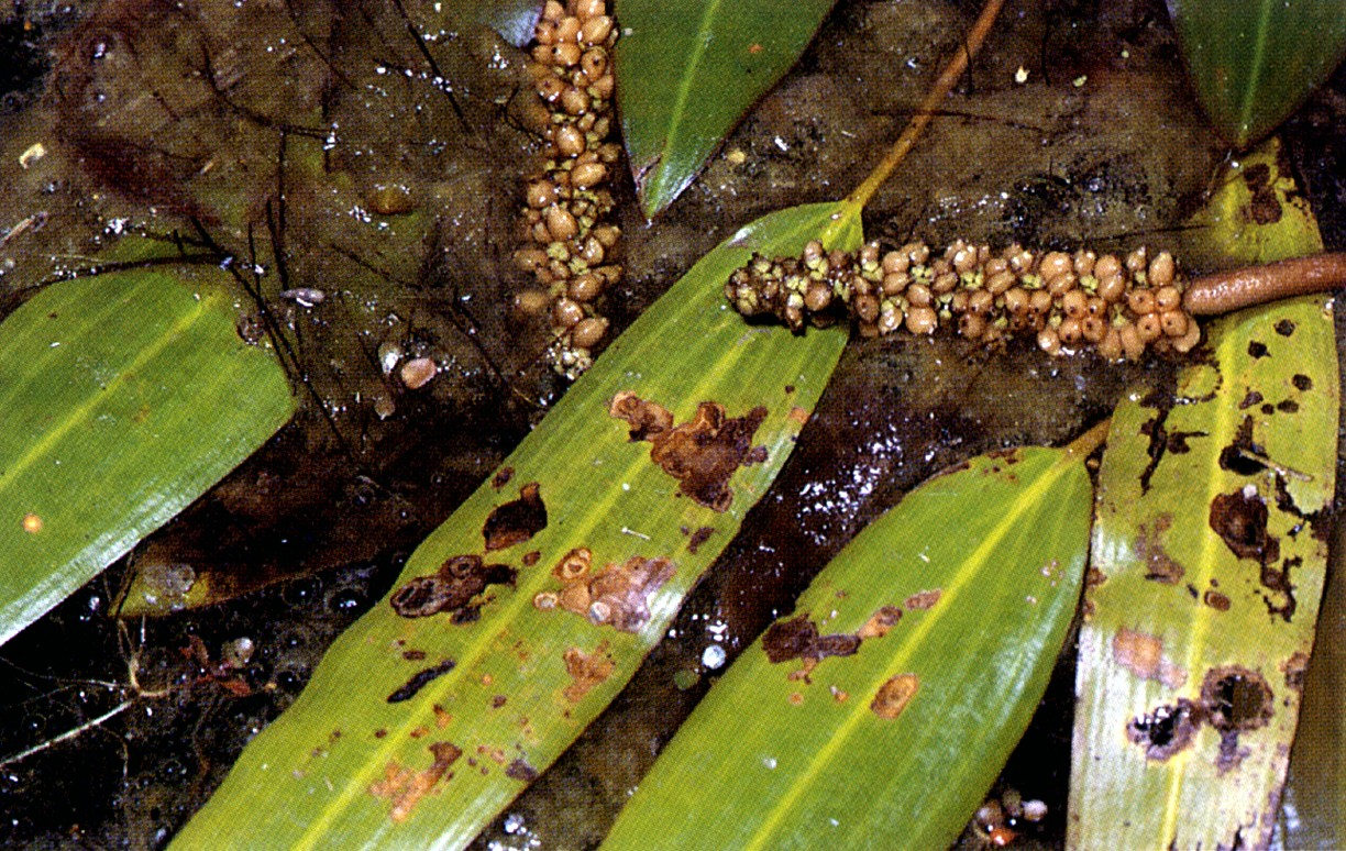 Potamogeton nodosus